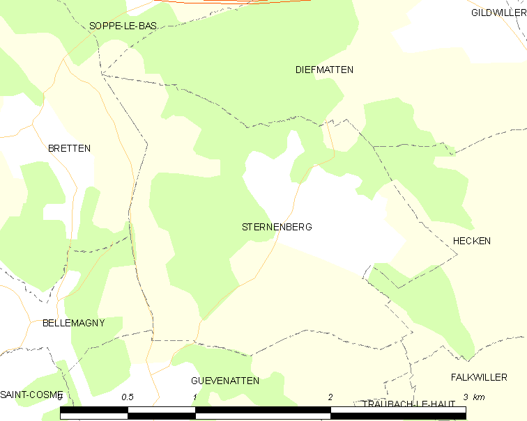 Map of French municipality